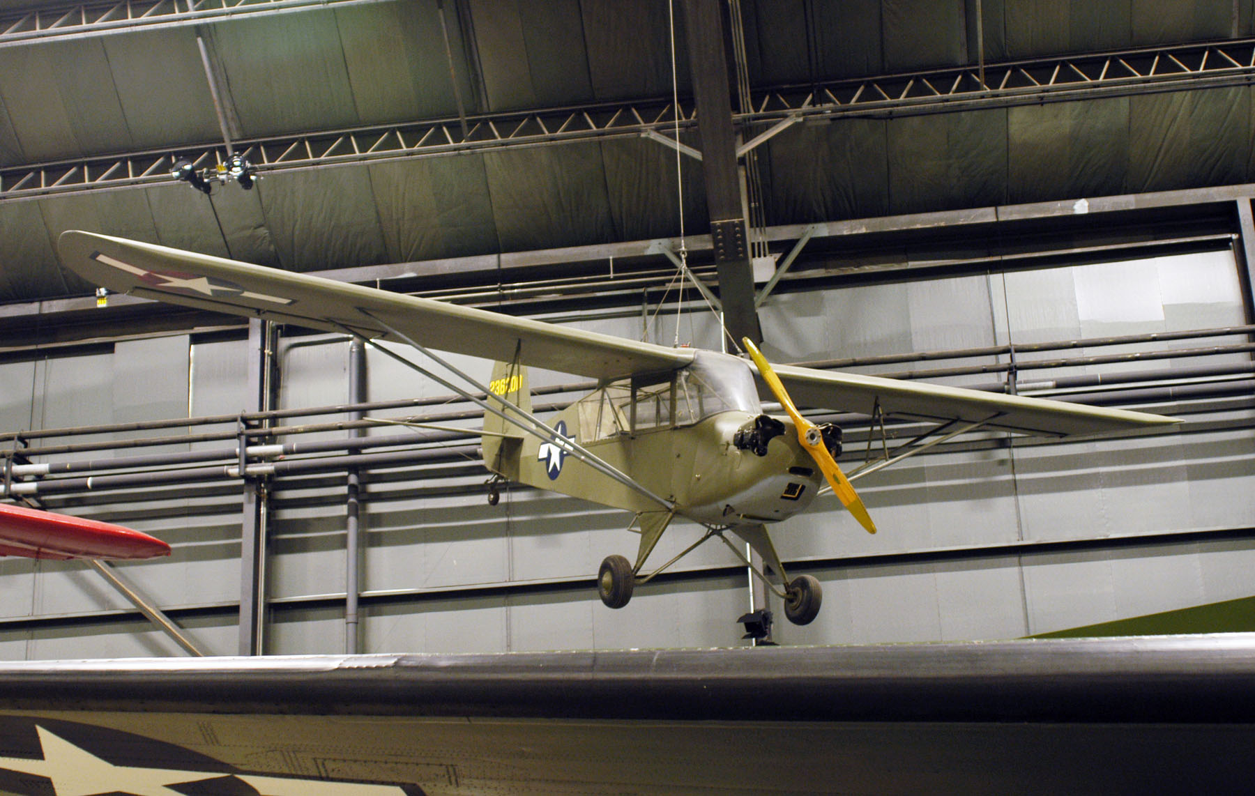 Aeronca L-3 "Grasshopper" in Air Power Gallery of National Museum of the USAF collection.